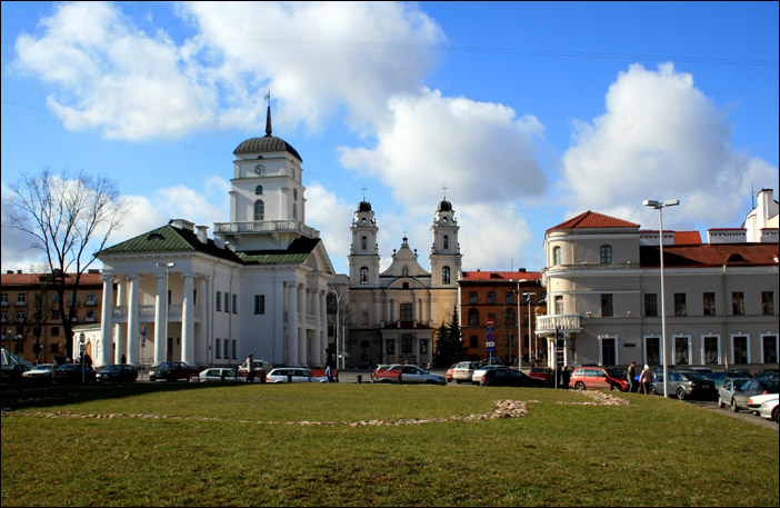 Old part of Minsk